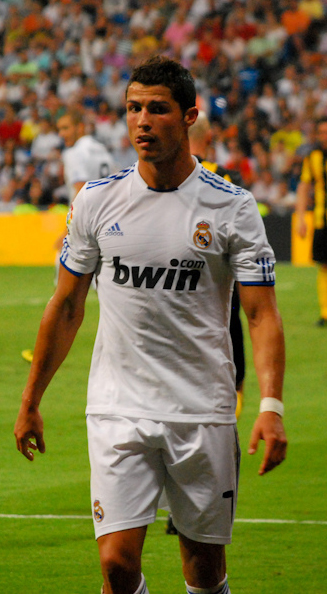 Cristiano Ronaldo in Real Madrid 2 - 0 Peñarol. The size of this image was adjusted by Photoshop. The original photo was taken by Jan S0L0 in Chamartín,Madrid.